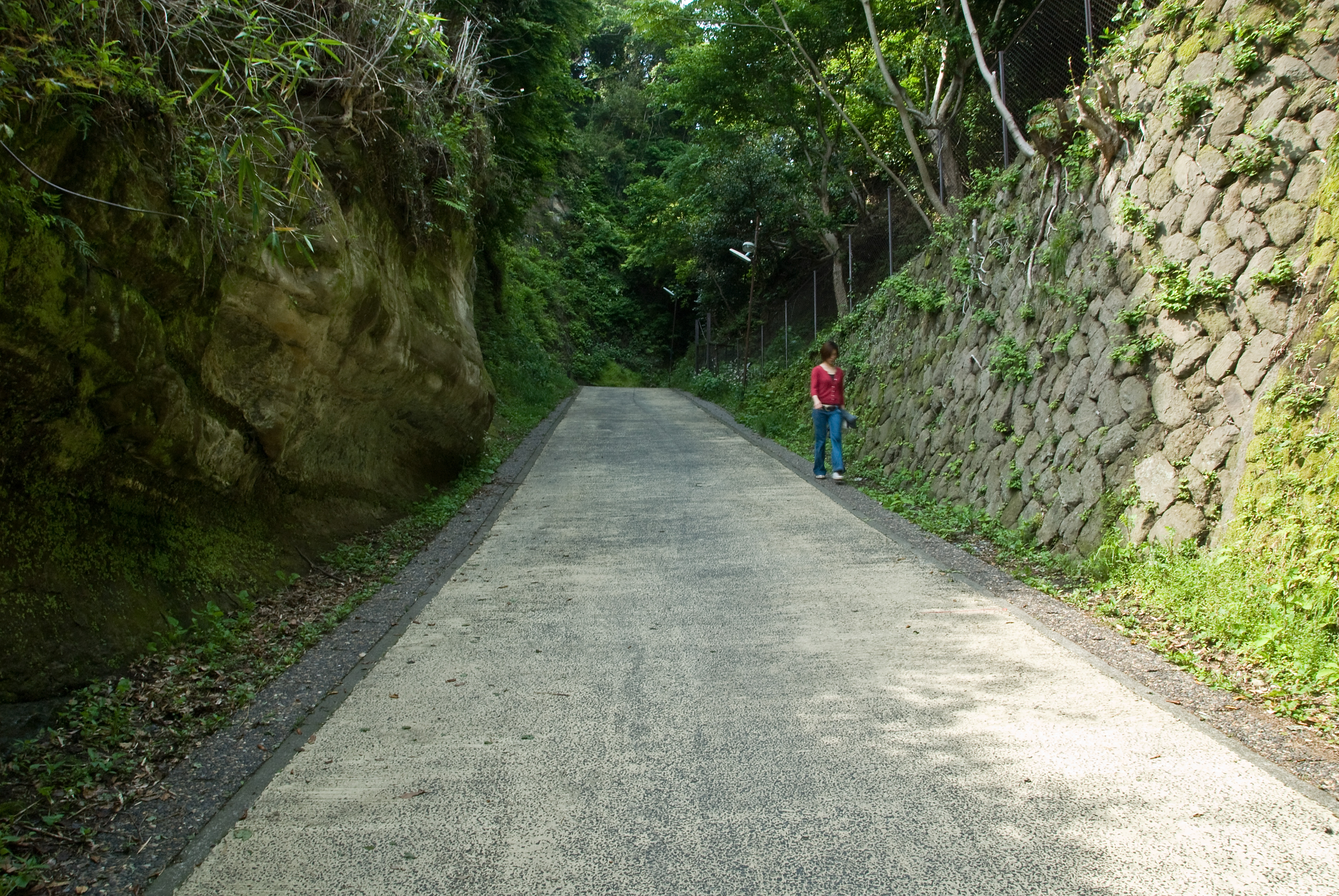 The Kamegayatsuzaka Pass, Kamakura side.